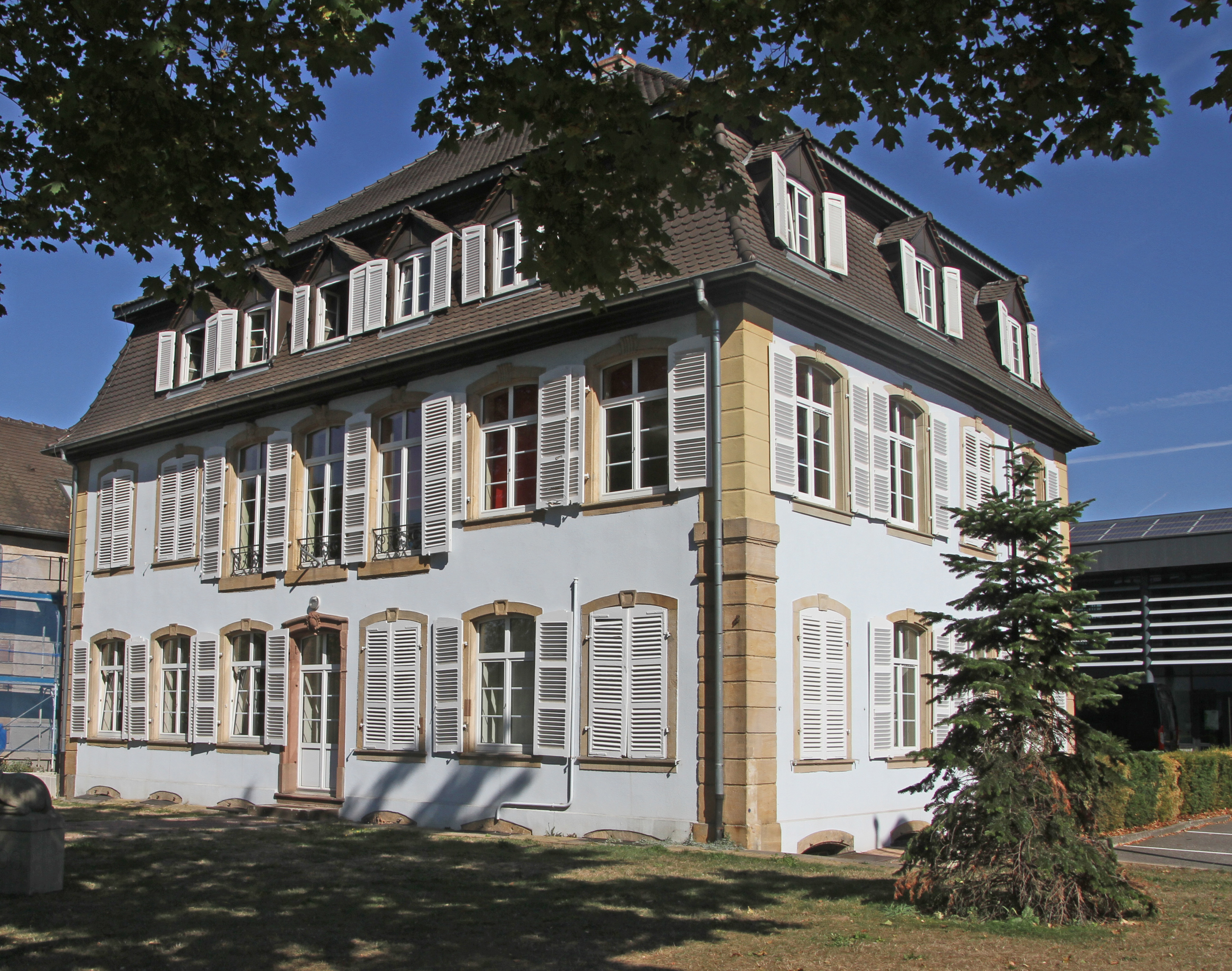 City hall of Roeschwoog.